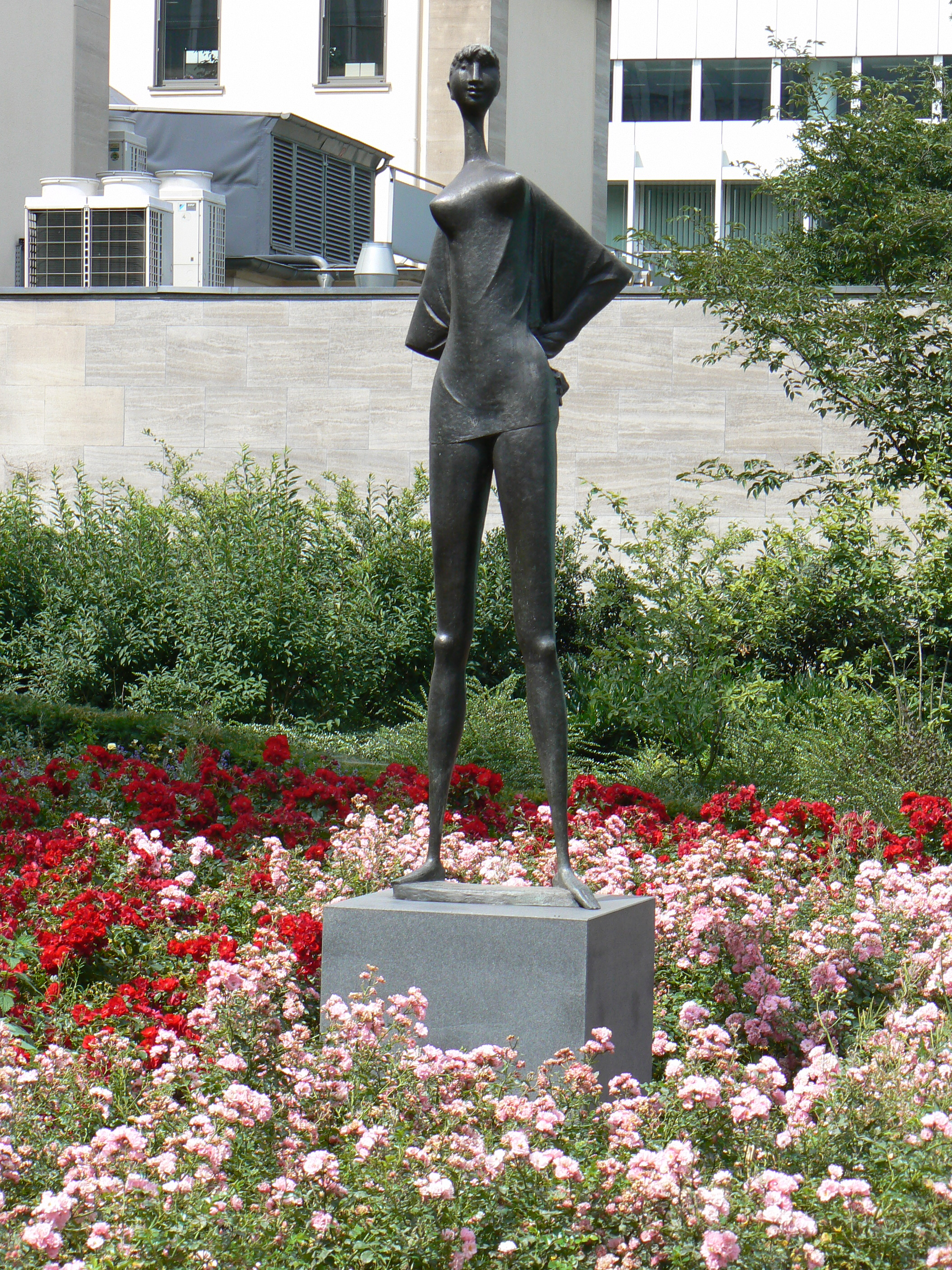 sculpture Tristata (1960) by Marcello Mascherini in Duisburg/Germany